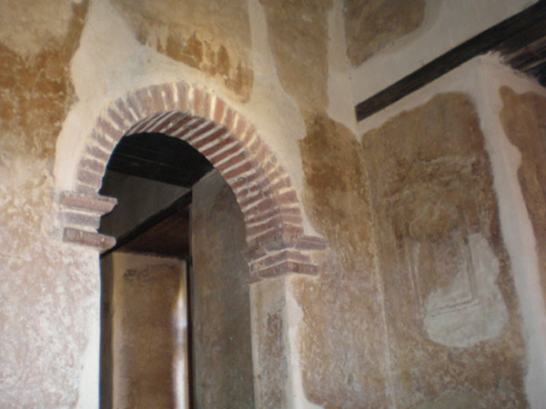 David cross (on the left) and muslim sign (on the right) in a room of fasilades castle, symbolising the unity of the empire, Gondar, Ethiopia